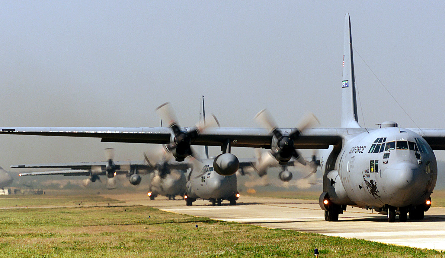 U.S. Air Force C-130 Hercules taxi down the runway at Pope Air Force Base, N.C., prior to loading up paratroopers for an airdrop during Air Mobility Rodeo 2000, on May 7, 2000. Rodeo 2000 is the U.S. Air Force Air Mobility Command's premier air mobility competition, involving more than 80 aircraft and 100 teams from 17 countries. The teams compete in airdrops, aerial refueling, aircraft navigation, special tactics, short field landings, cargo loading, engine running on and off load, aeromedical evacuations and security forces operations. The Hercules are attached to the 43rd Wing at Pope.